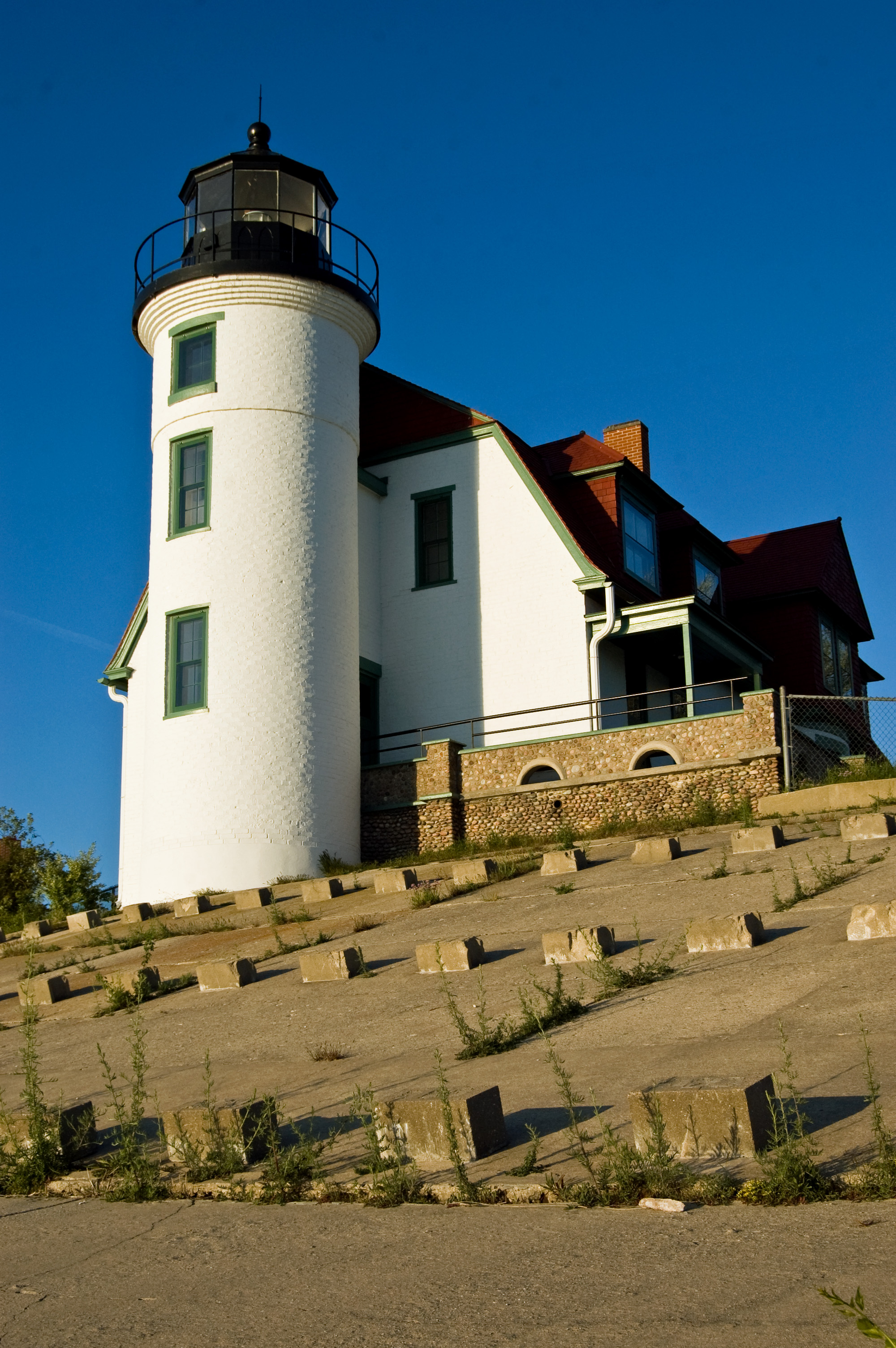 Point Betsie Light at Lake Michigan, Michigan, USA